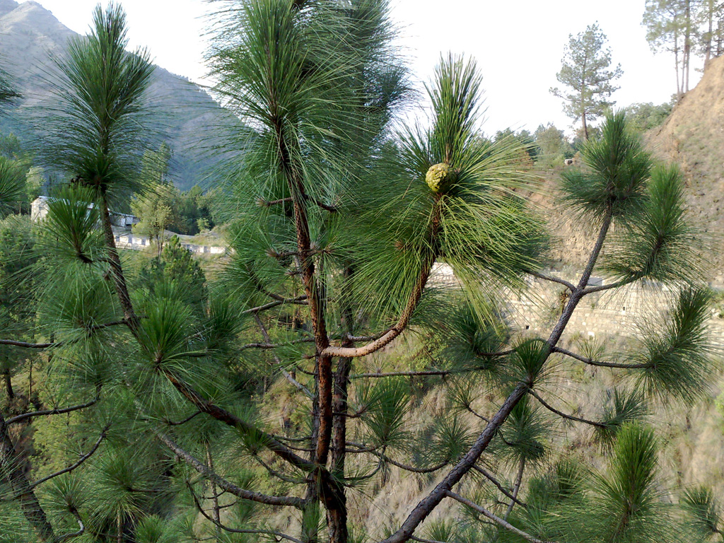 Pinus roxburghii foliage and immature cone. Galiyat, Pakistan.